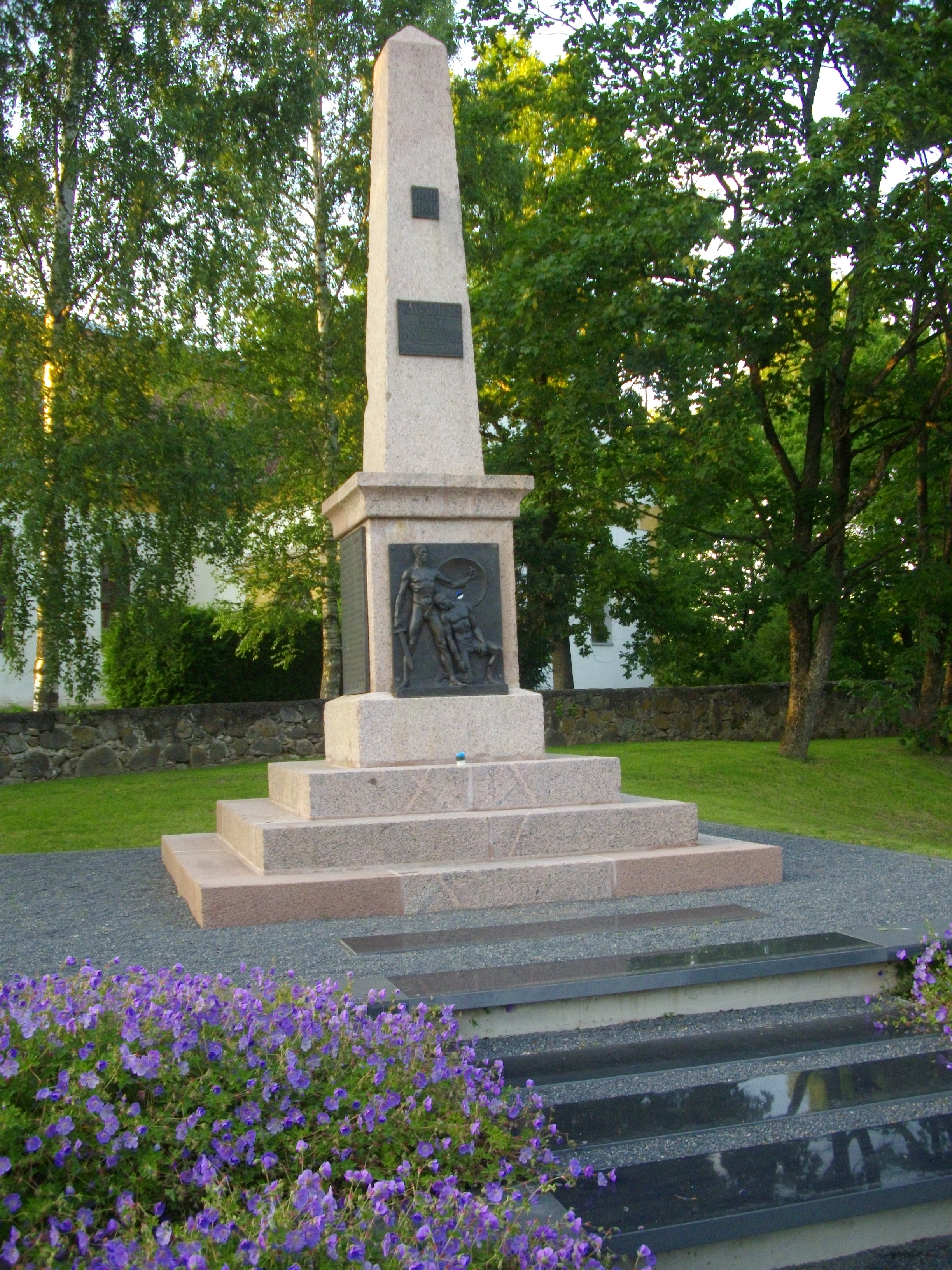 Statue of Estonian War of Independence in Põlva, rebuilt in 1989.